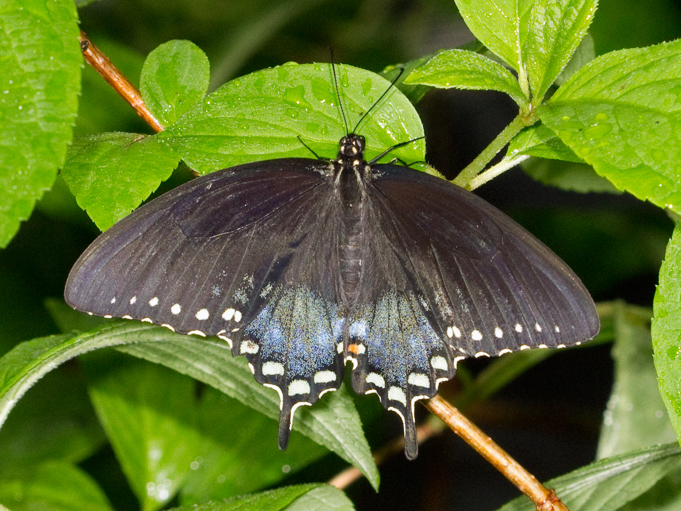 Female Spicebush Swallowtail (Papilio troilus) at Huntsville Botanical Garden